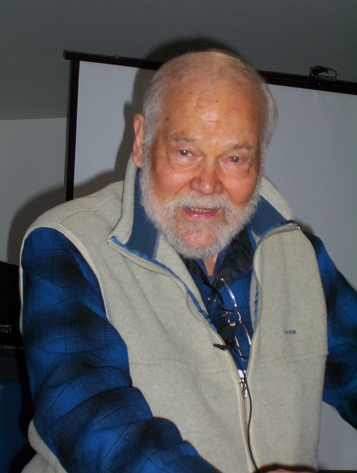 Jay Hammond in 2005.